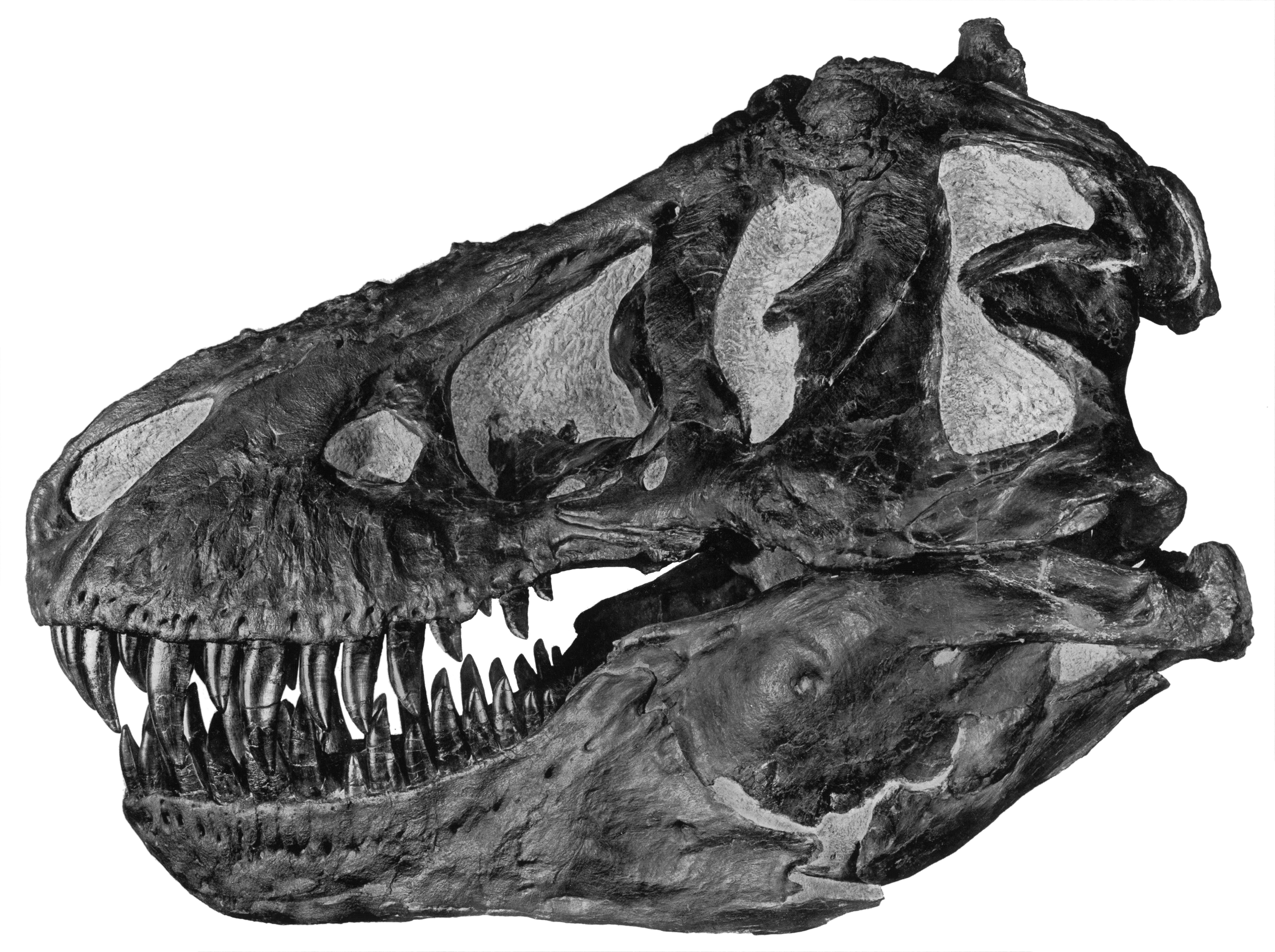 Complete Tyrannosaurus rex skull, AMNH 5027.